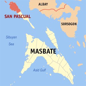 Map of Masbate showing the location of San Pascual